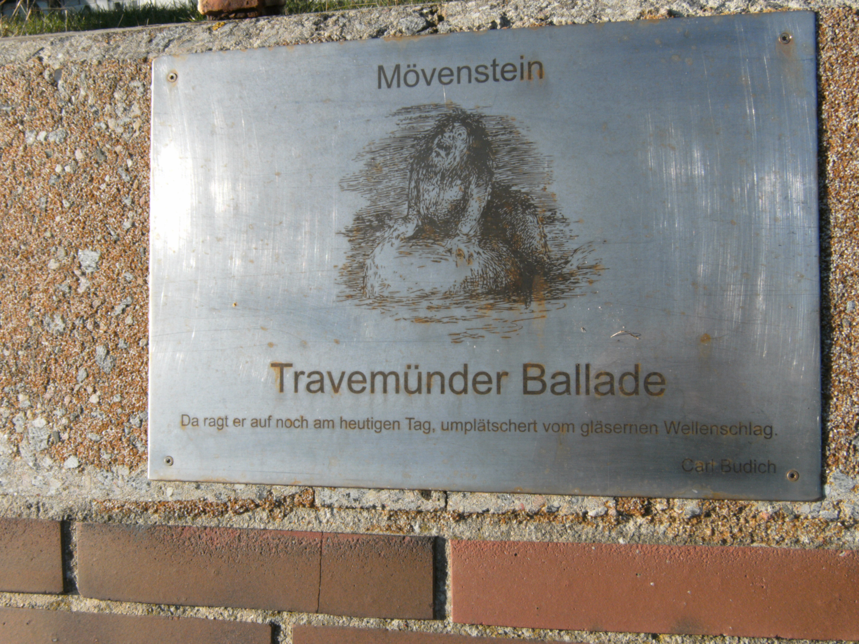 Lübeck-Travemünde, Germany: Erratic block Mövenstein at the shore of the Baltic Seathe at the foot path below the former public sea bath. Plaque